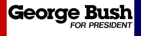 George H. W. Bush presidential campaign, 1980